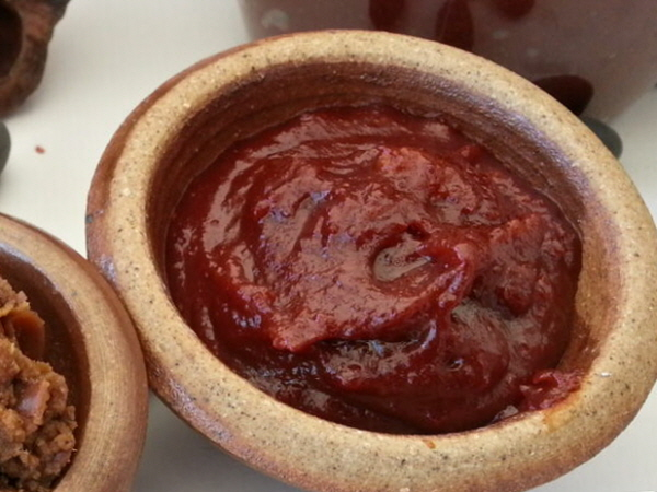 gochujang (chilli paste)